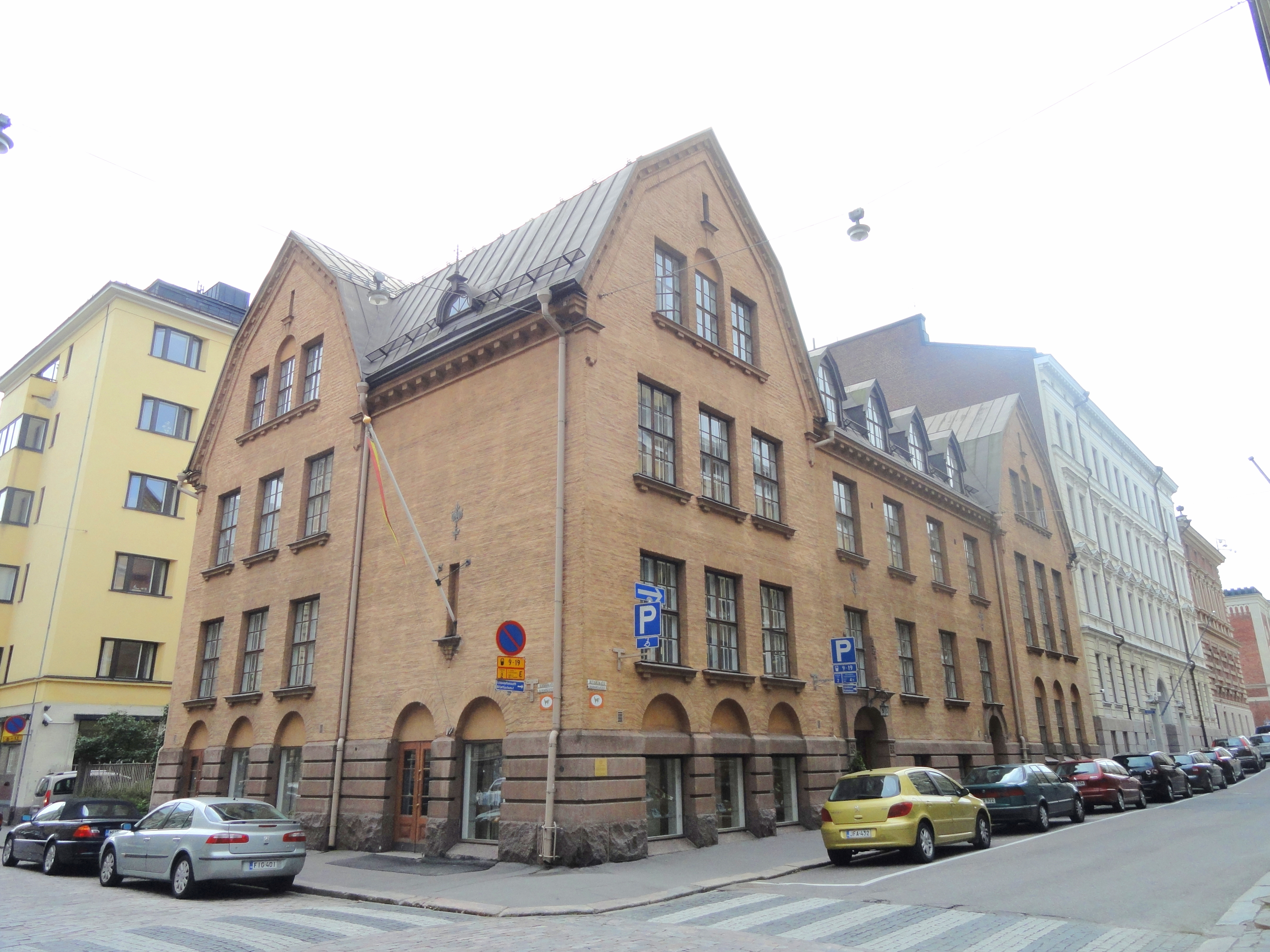 Svenska litteratursällskapet hus, Riddaregatan 5, Helsinki, Finland. Architect: Karl Hård (1873-1931).